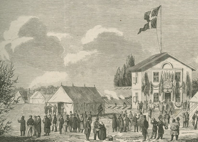 The country house Enighedsværn in Vesterbro (far end of later street Tietgensgade) in Copenhagen, Denmark. The picture is from the 1862-63 season of Illustreret Tidende.